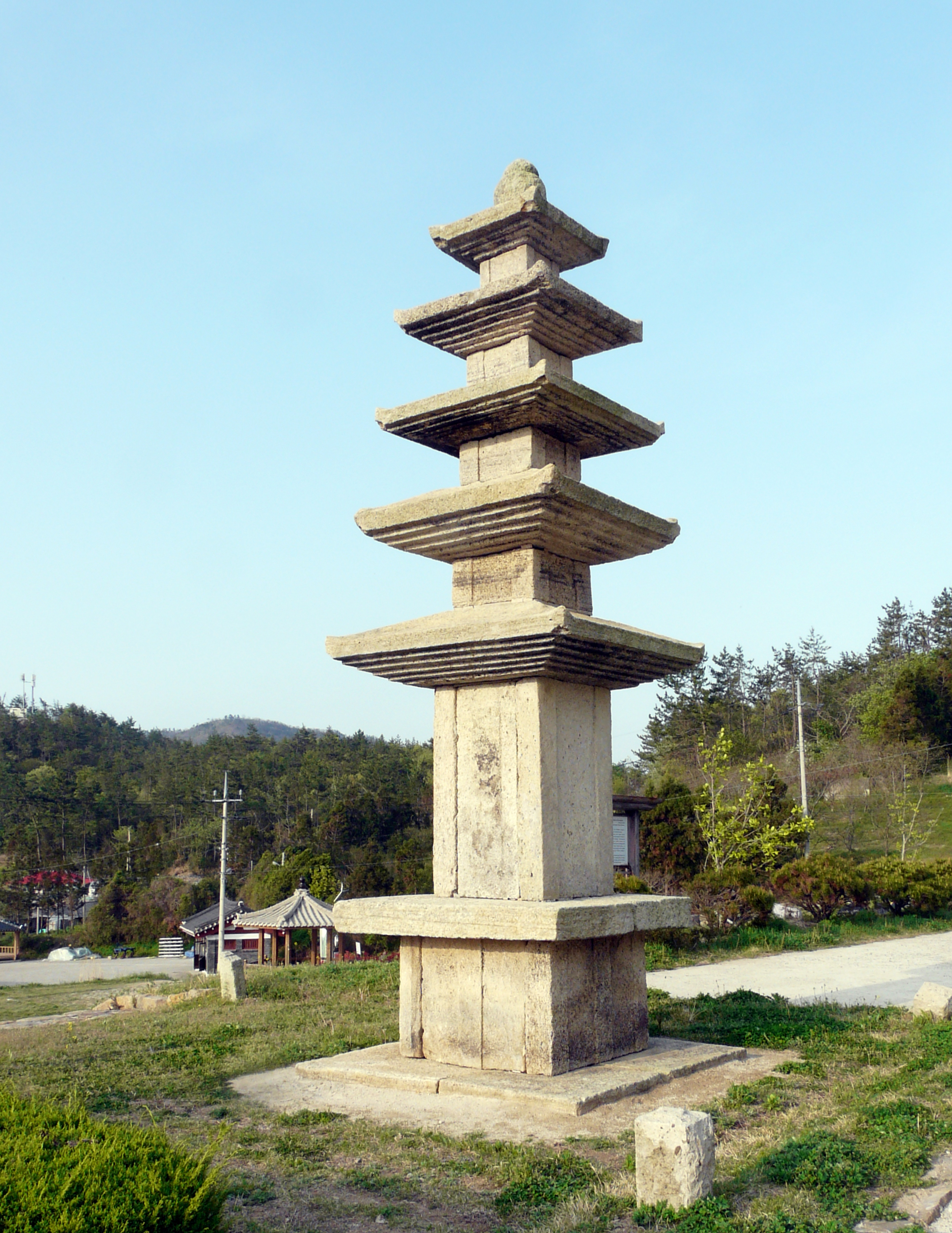 Photos from the Jindo island, Korea. Five Storied Stone Pagoda at Geumgolsan. Treasure no 529